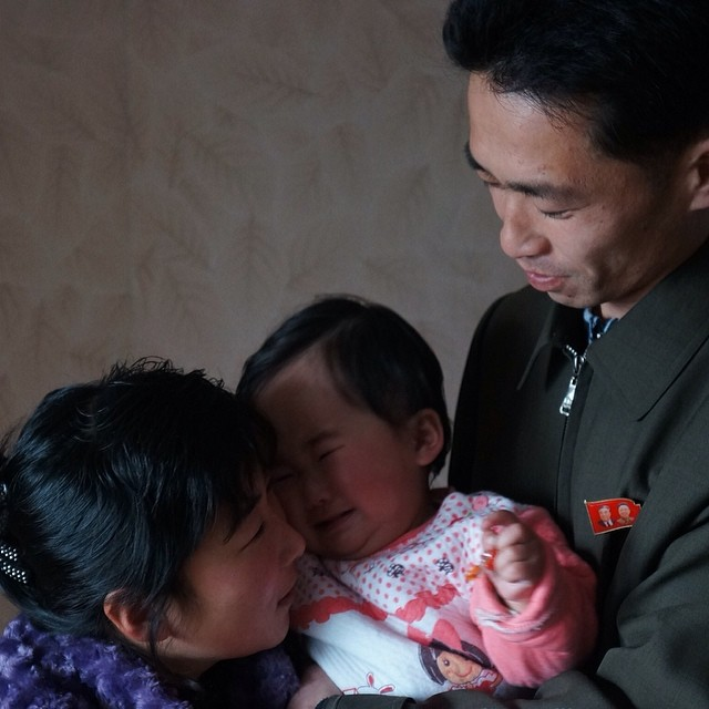 Reflecting on our New Years tour, we found this great photo of a North Korean family we visited on New Year's Day. #2014 #northkorea #uritours